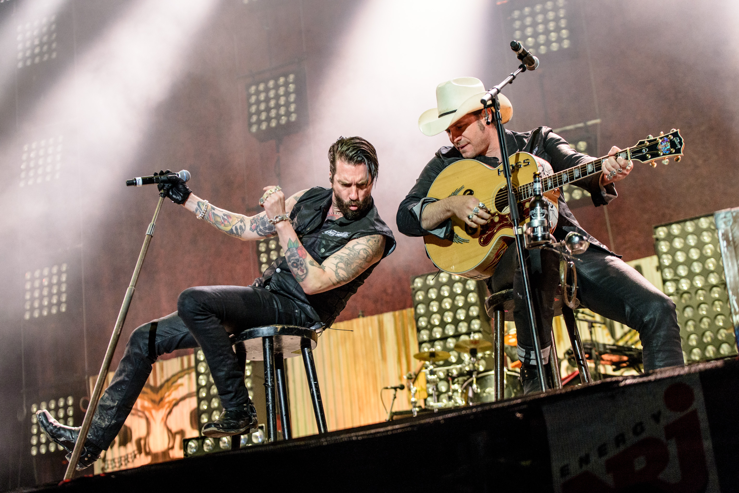 The Boss Hoss @ Rock im Park 2016